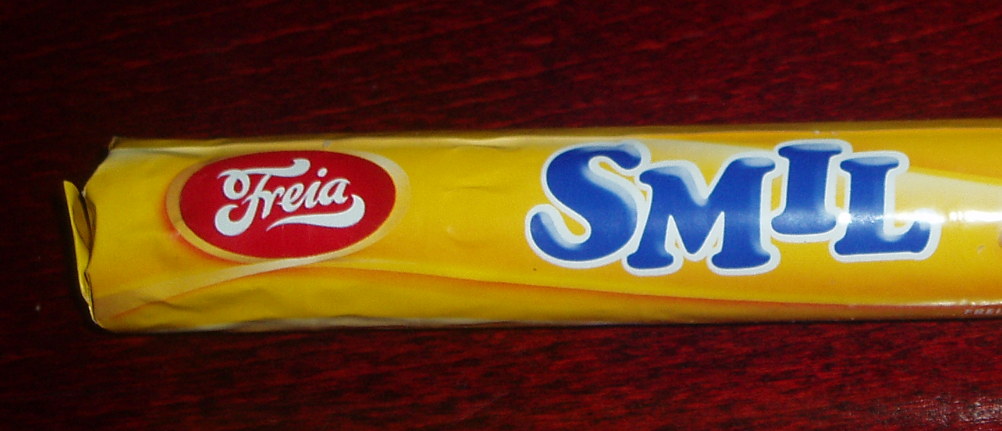 Left part (~2/3) of Norwegian chocolate packaging "Smil", made by Freia.